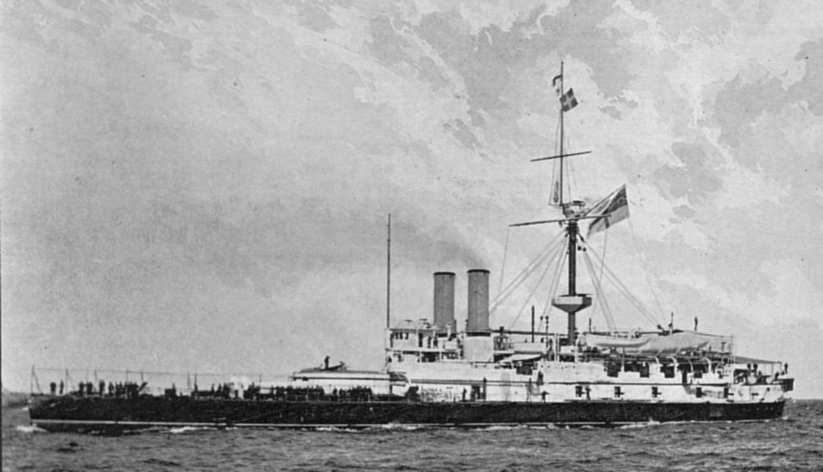 HMS Victoria (1887-1893). Sunk by collision with HMS Camperdown in the mediterranean